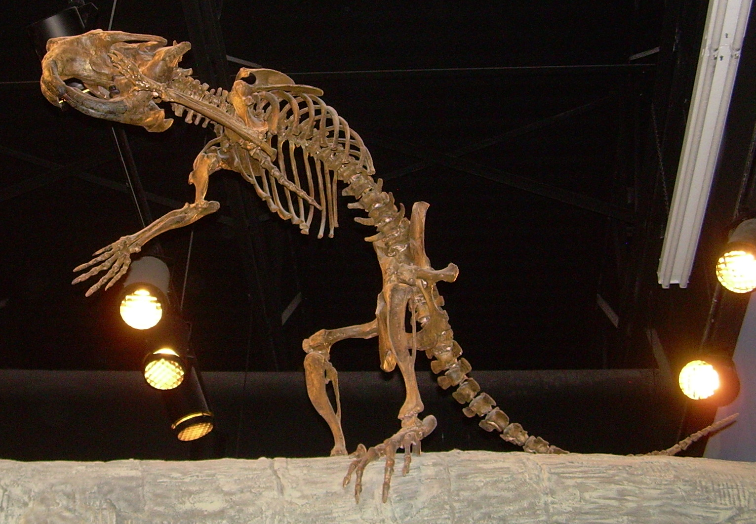 Photograph of a fossil cast of a Castoroides skeleton taken at the North American Museum of Ancient Life.